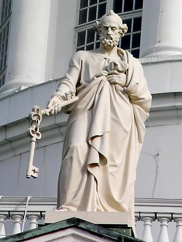 Statue of Saint Peter by Hermann Schievelbein at the roof of the Helsinki Cathedral.